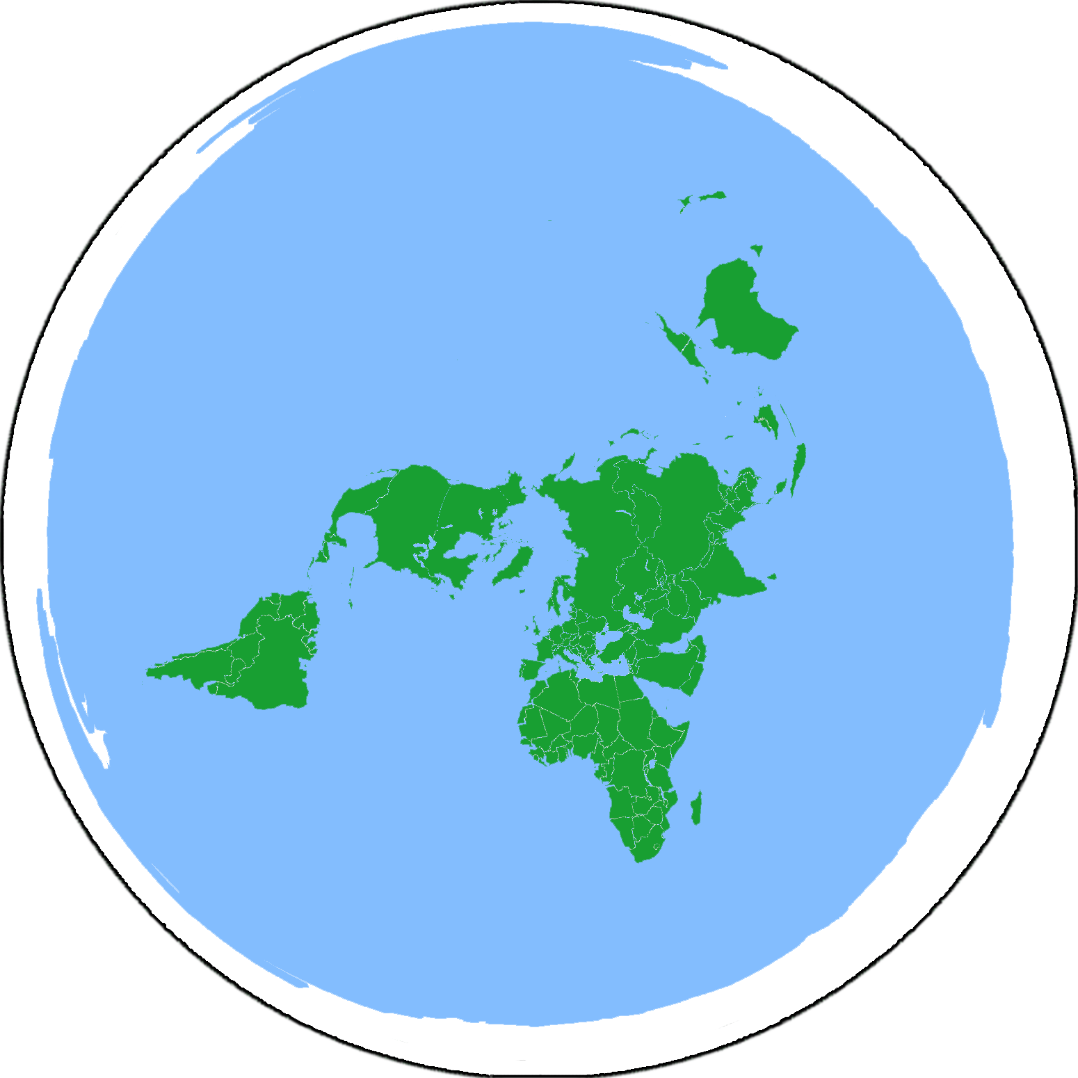 A flat Earth map. Basically a polarized projection with some of the southern landmasses adjusted for distortion.